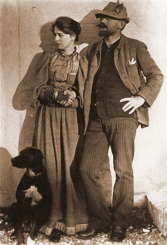 Photograph of Marie Krøyer and her husband P.S. Krøyer in Skagen (1892)